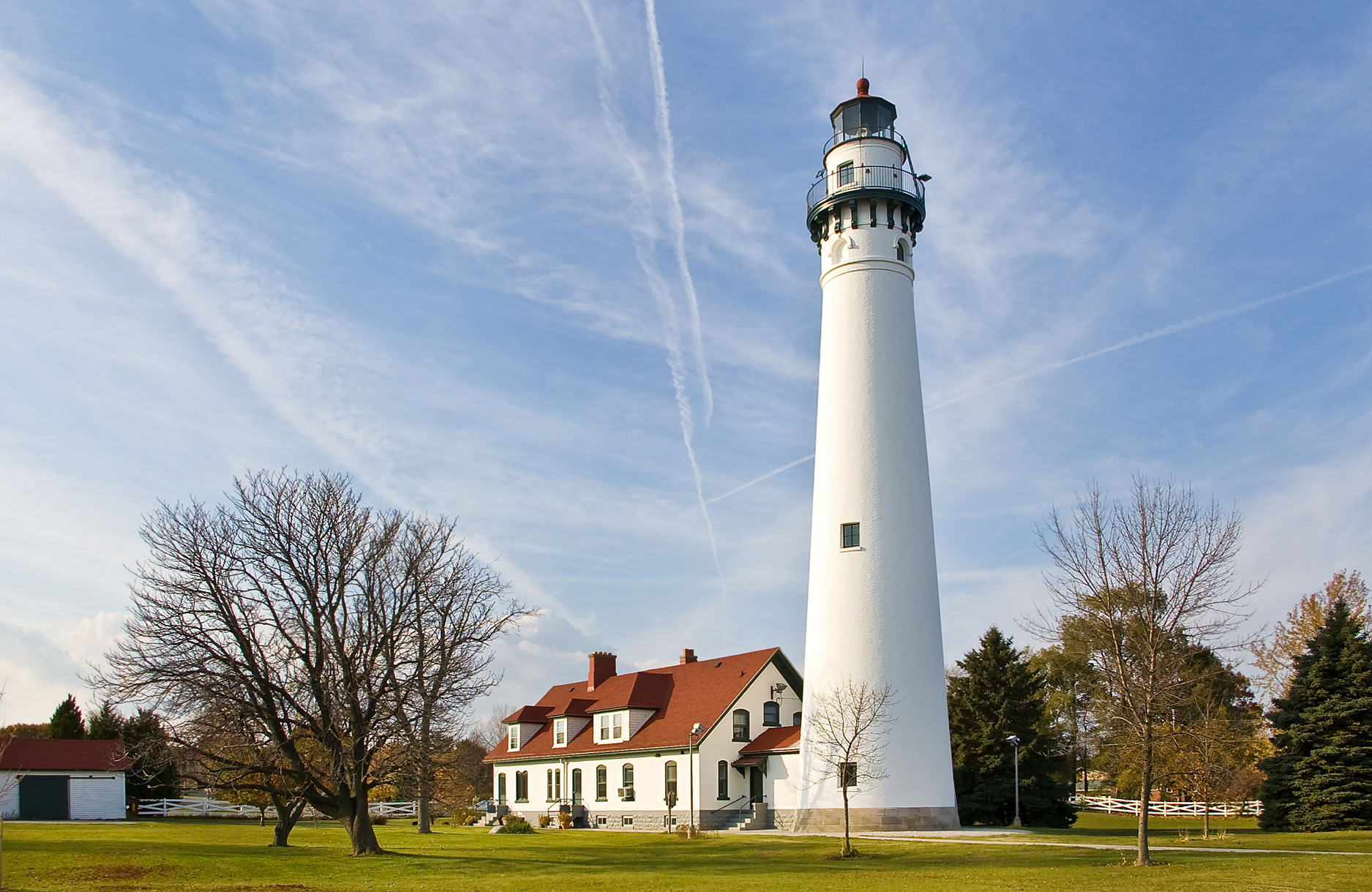 Wind Point Lighthouse, Wind Point, Wisconsin. Constructed on the shore of Lake Michigan in 1880.